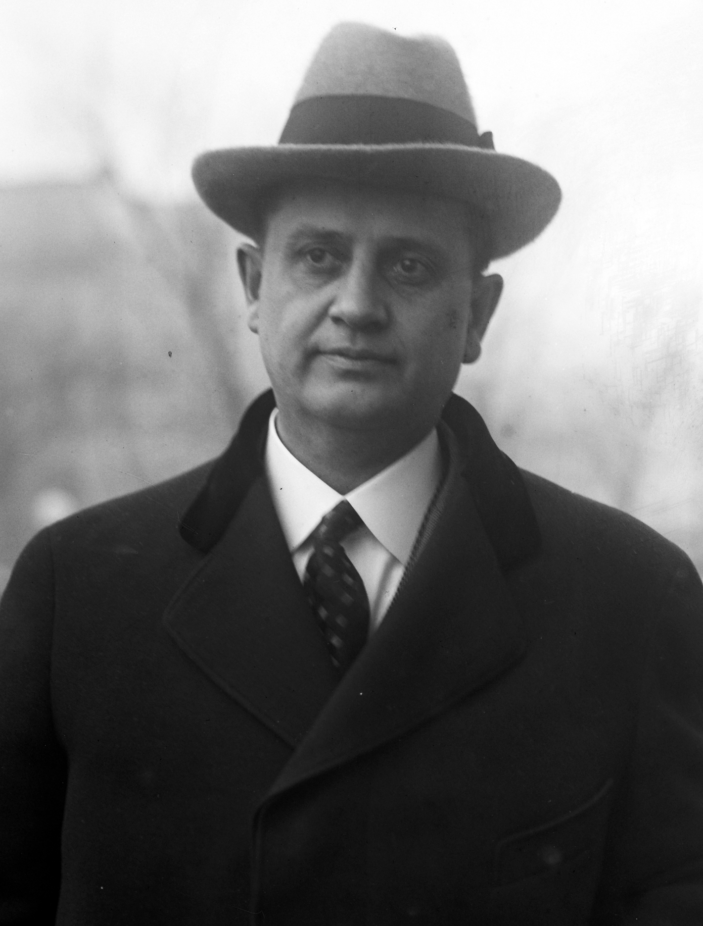 Everett Sanders, US Representative from Indiana and Chairman of the Republican National Committee